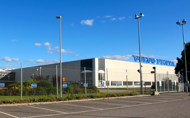 Volvo Penta's plant in Vara, Sweden